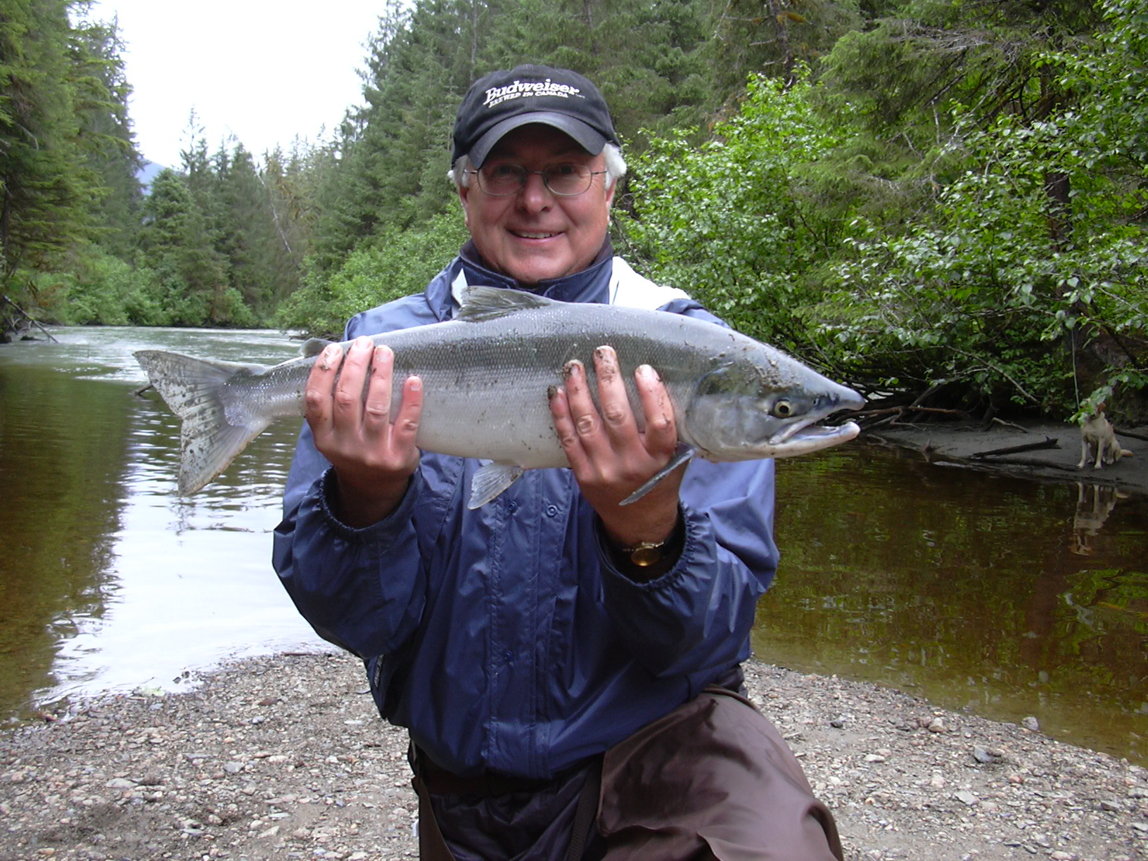 Sockeye salmon caught on an Alaskan stream